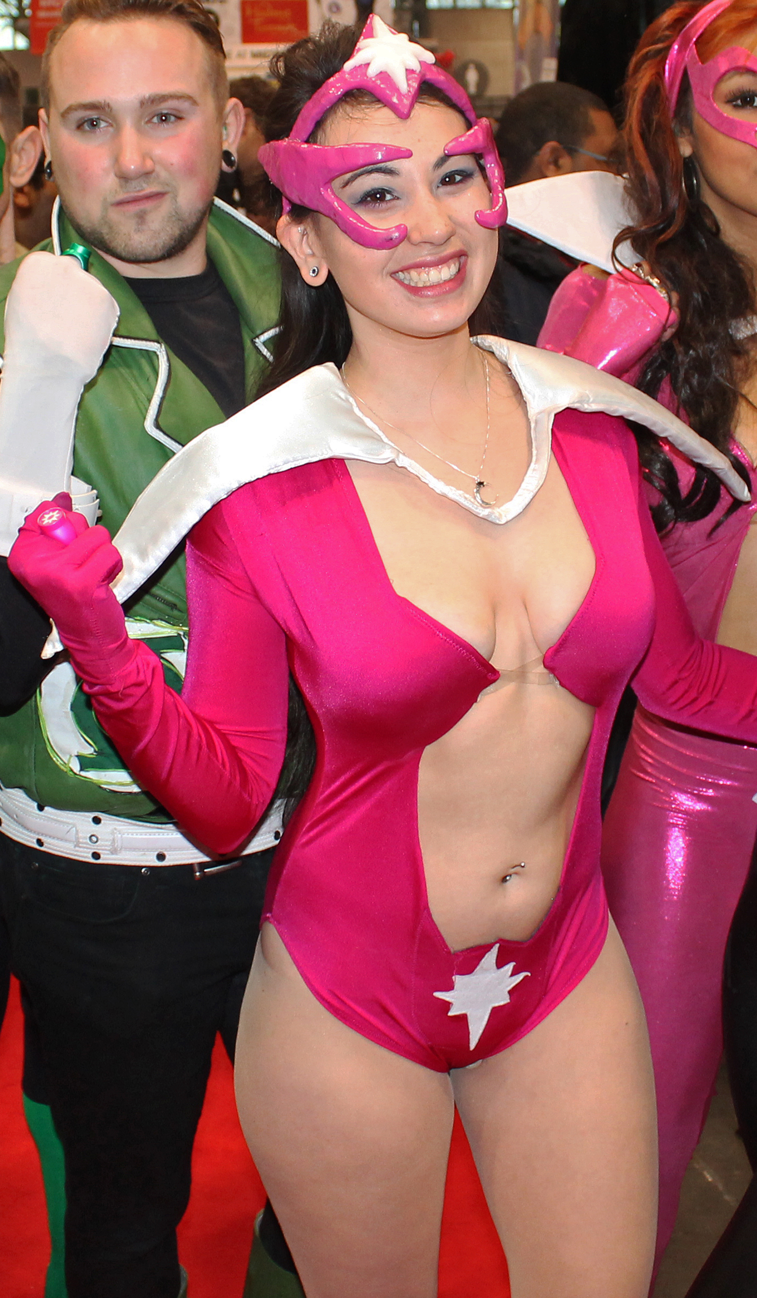 Ion, Guy Gardneer, Kyle Rayner (Green Lanterns), Fatality and Carol Ferris (Star Sapphires), and a blue lantern. Taken at New York Comicon, 2014 at the Jacob Javitz Center on Saturday, October 11th. A very sincere thanks to all of the nice folks who were kind enough to let me take their picture. If you see yourself in this or any of my other pictures, let me know in the comments, or by emailing me at loser: [at] istolethe [dot] tv.